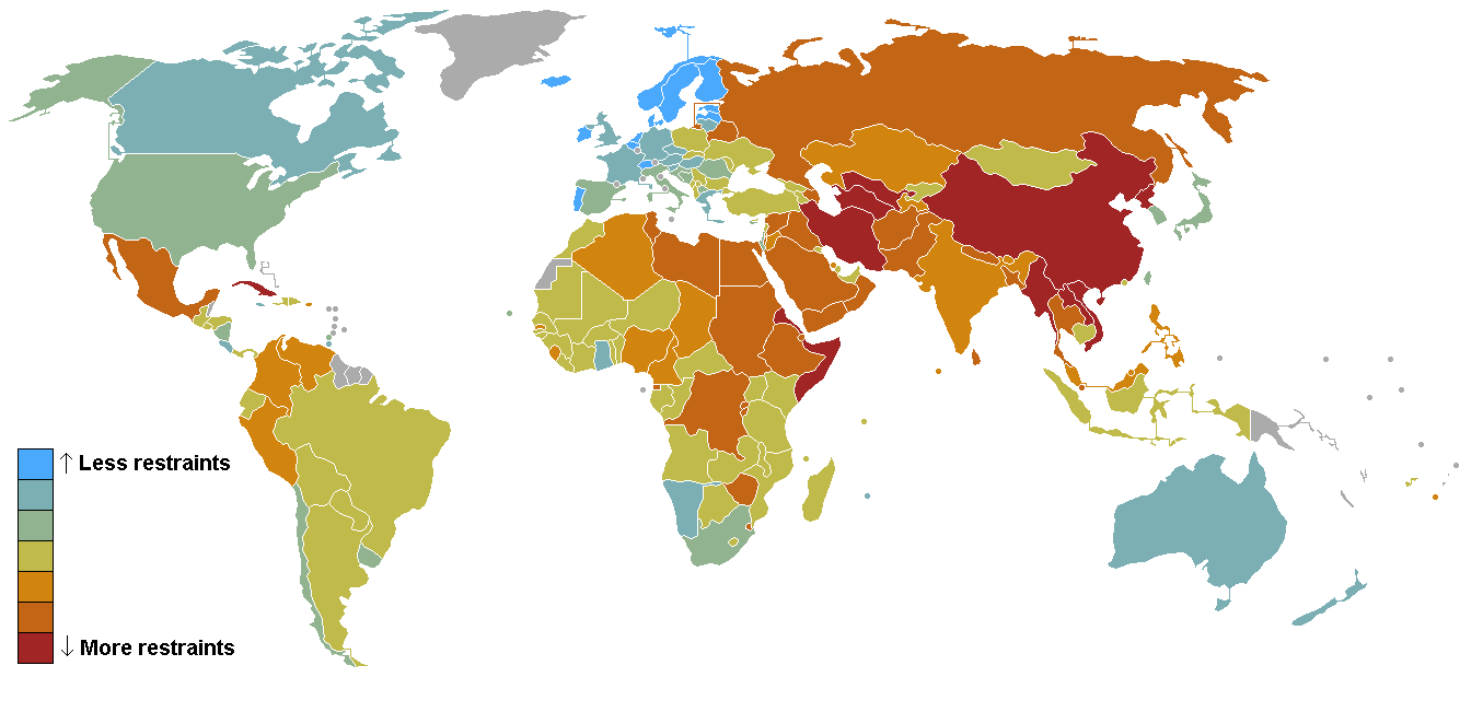 Reporters Without Borders 2008 press freedom ranking map.